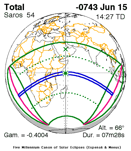 Eclipse Predictions by Fred Espenak, NASA/GSFC". Prediction for 15 June, 744BC (-743 in astronomical year)